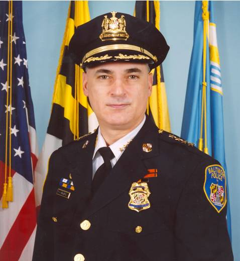 Baltimore Police Department Commissioner Frederick H. Bealefeld, III